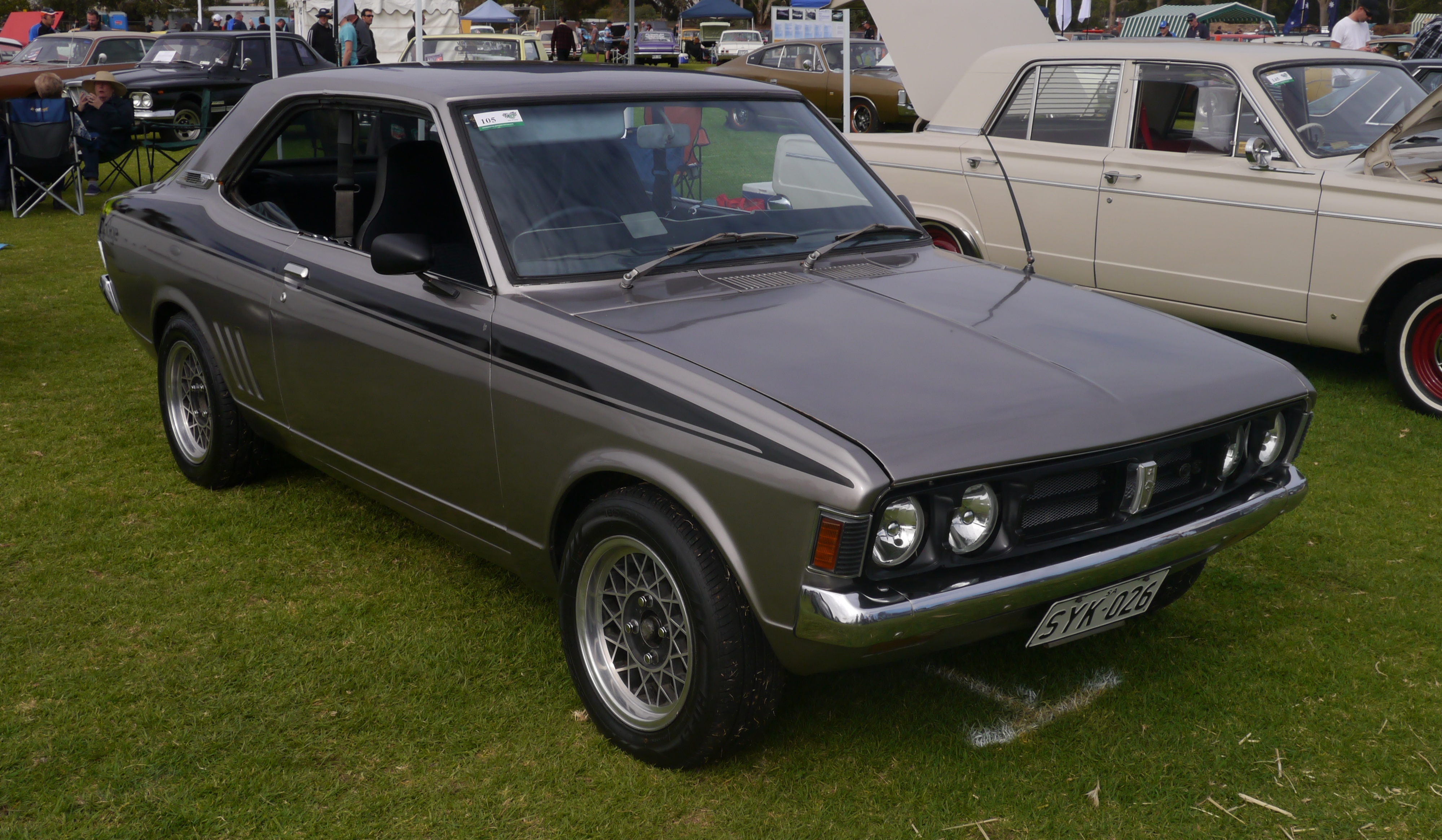 Mitsubishi Colt Galant coupe, photographed in Adelaide, Australia. This is a grey import vehicle, likely from Japan as Chrysler Australia did not import GA/GB series Chrysler Valiant Galant coupes into Australia. The GC/GD coupes were imported from Mitsubishi in Japan, to sell alongside the four-door sedan version manufactured in Australia.